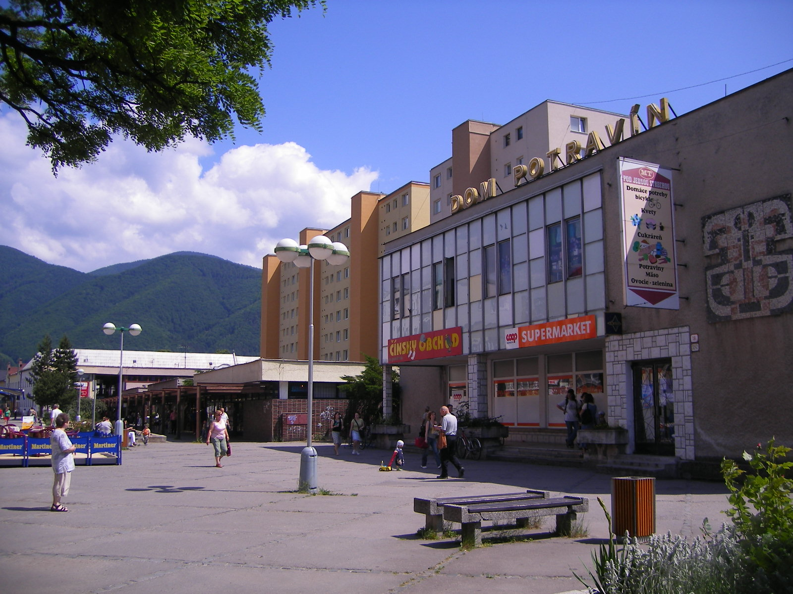 Vrútky